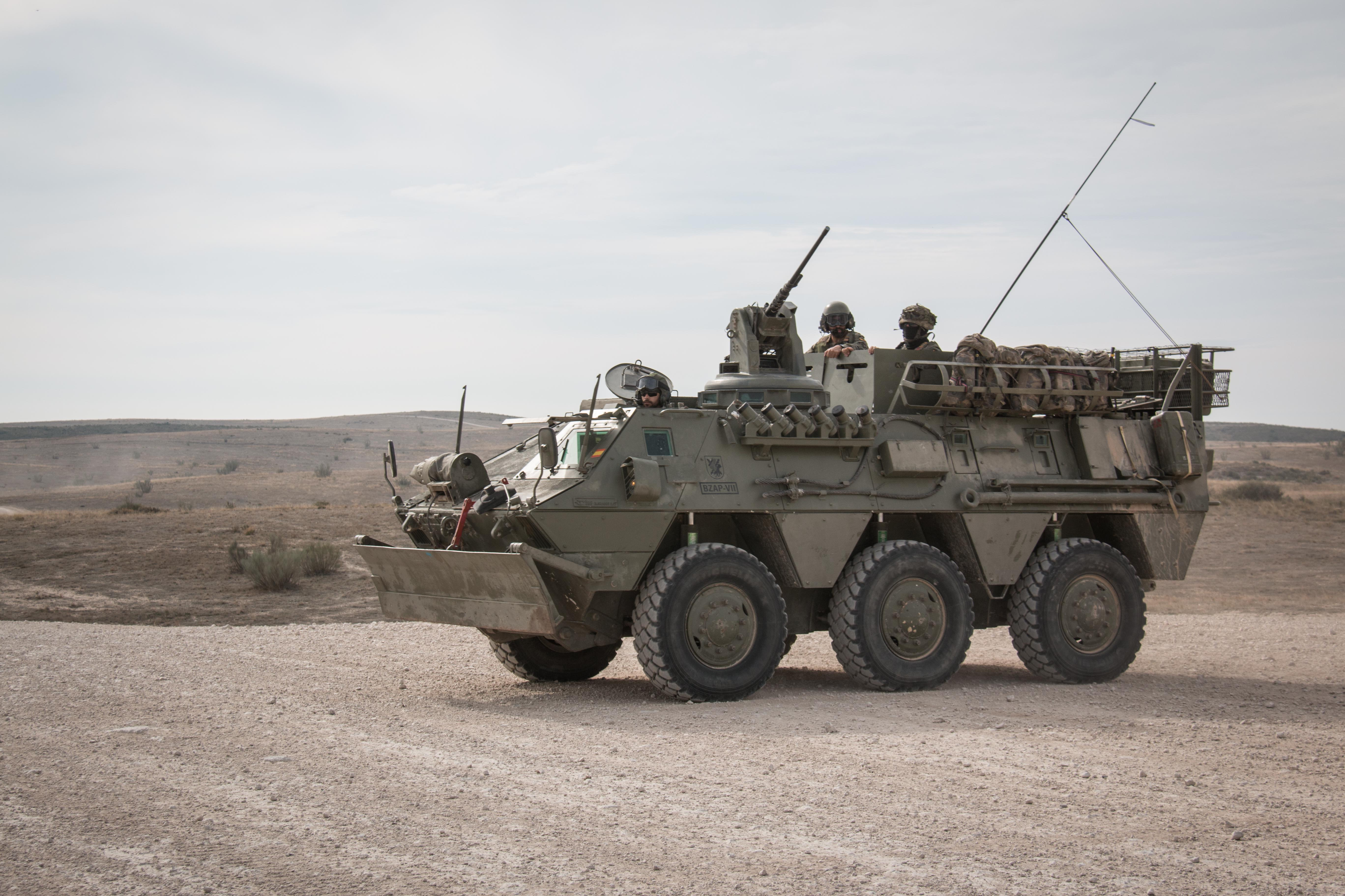 Spanish Army personnel participate in a decontamination (DCON) exercise at San Gregorio, Spain on October 24, 2015 during Trident Juncture 15. (photo by: Sgt Emily Langer/DEU-Army )